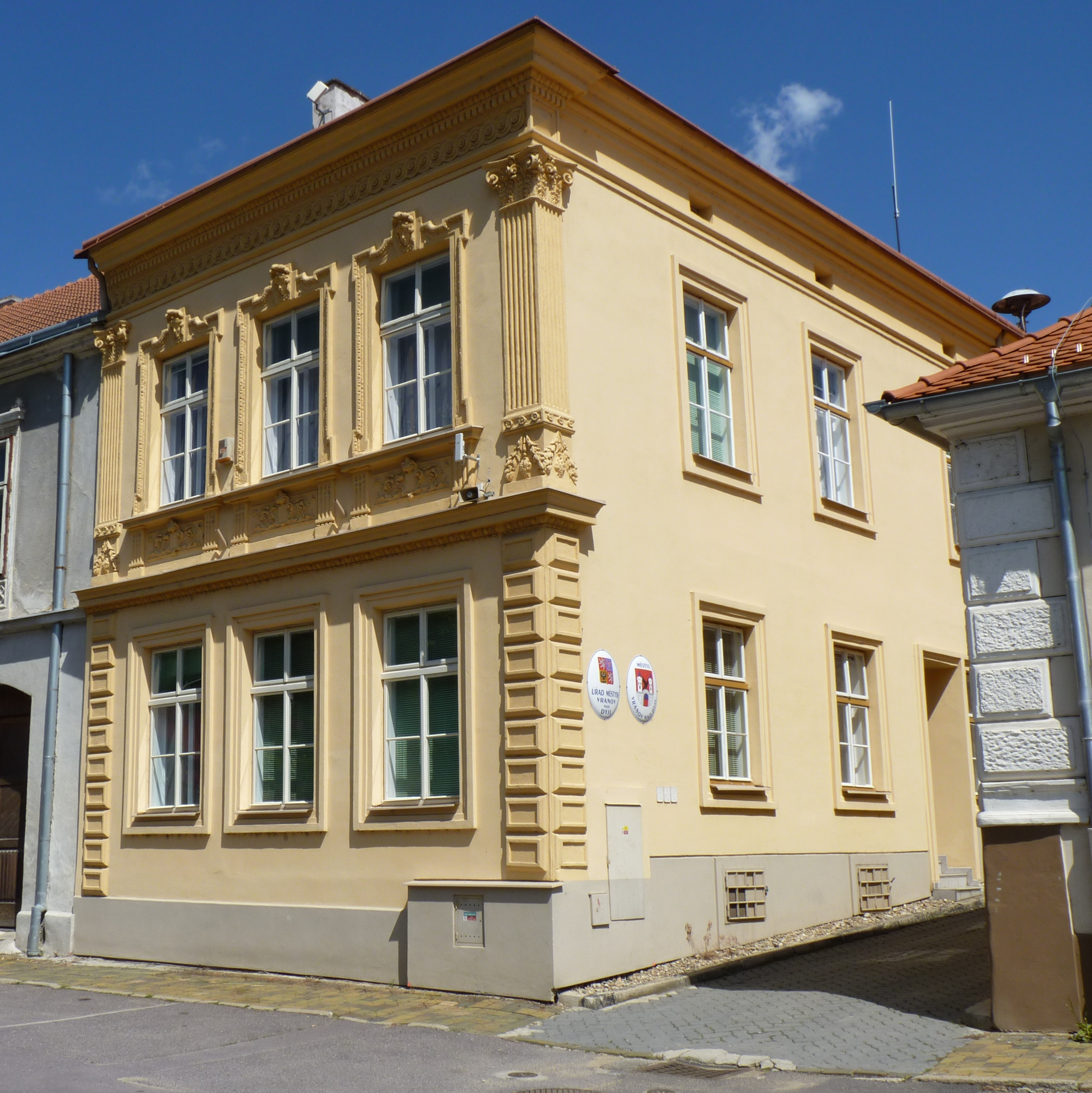 Vranov nad Dyjí, Znojmo District, South Moravian Region, Czech Republic